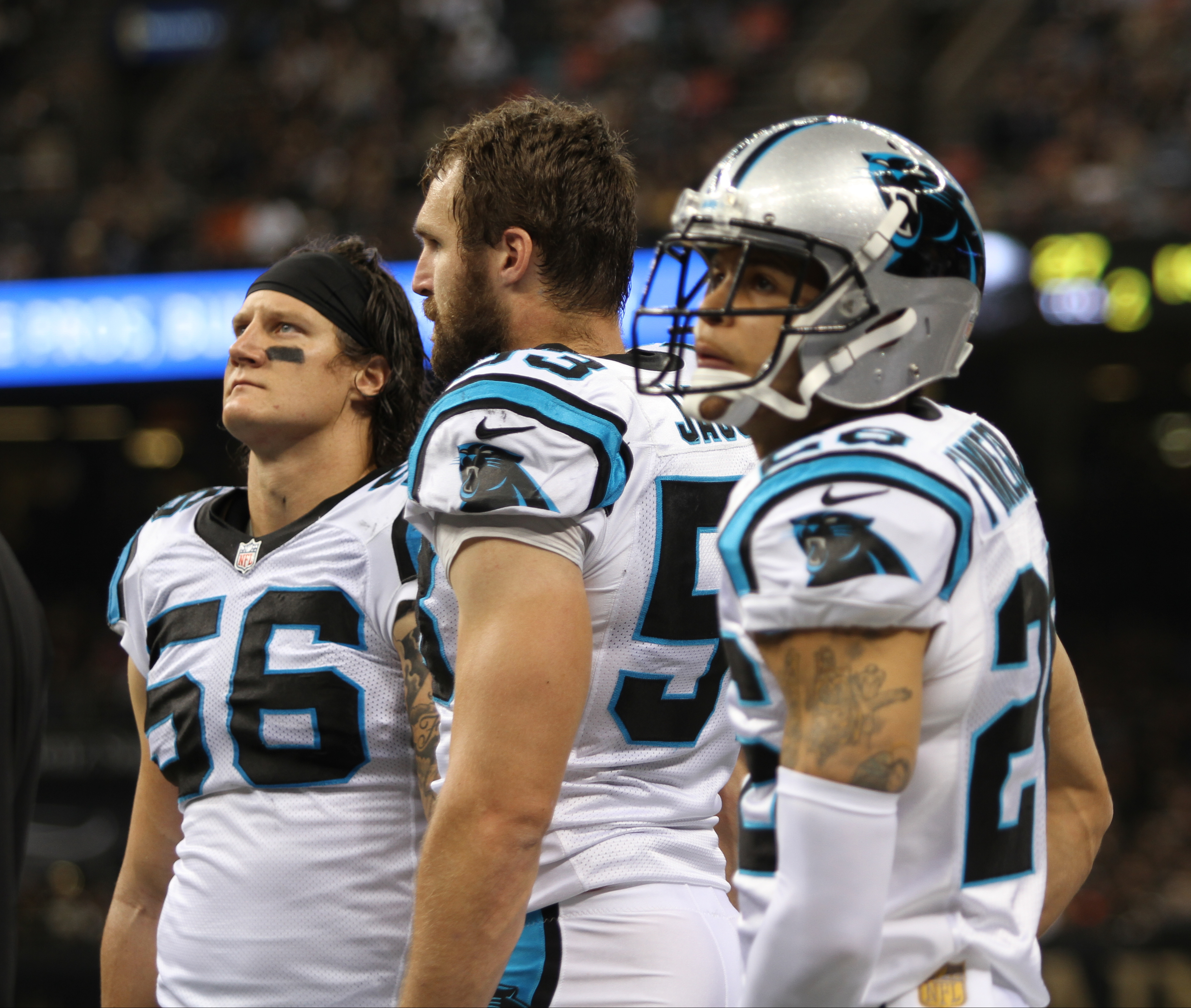 New Orleans Saints vs Carolina Panthers, December 6, 2015, Tammy Anthony Baker, Photographer